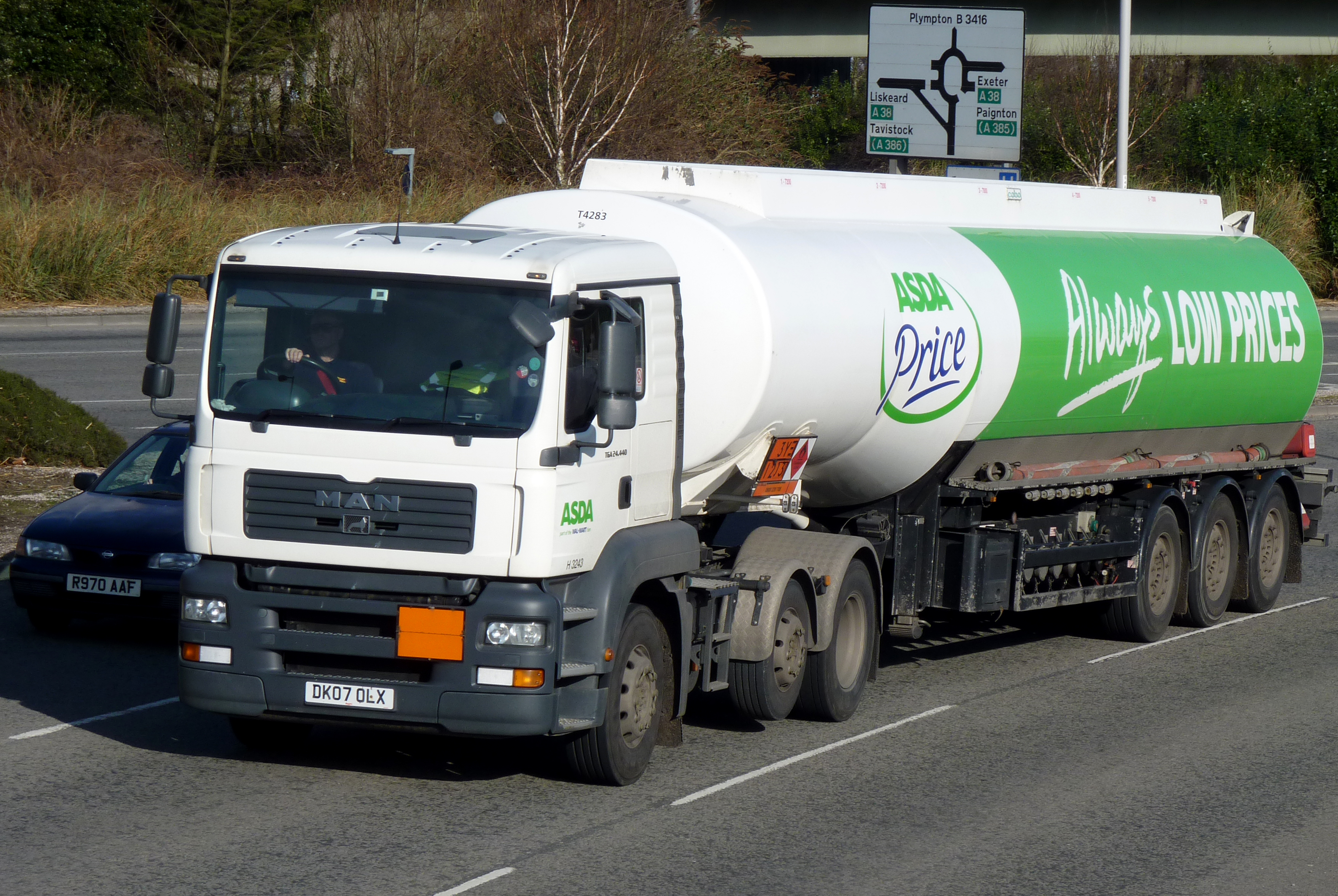 09 February 2010 Marsh Mills Plymouth